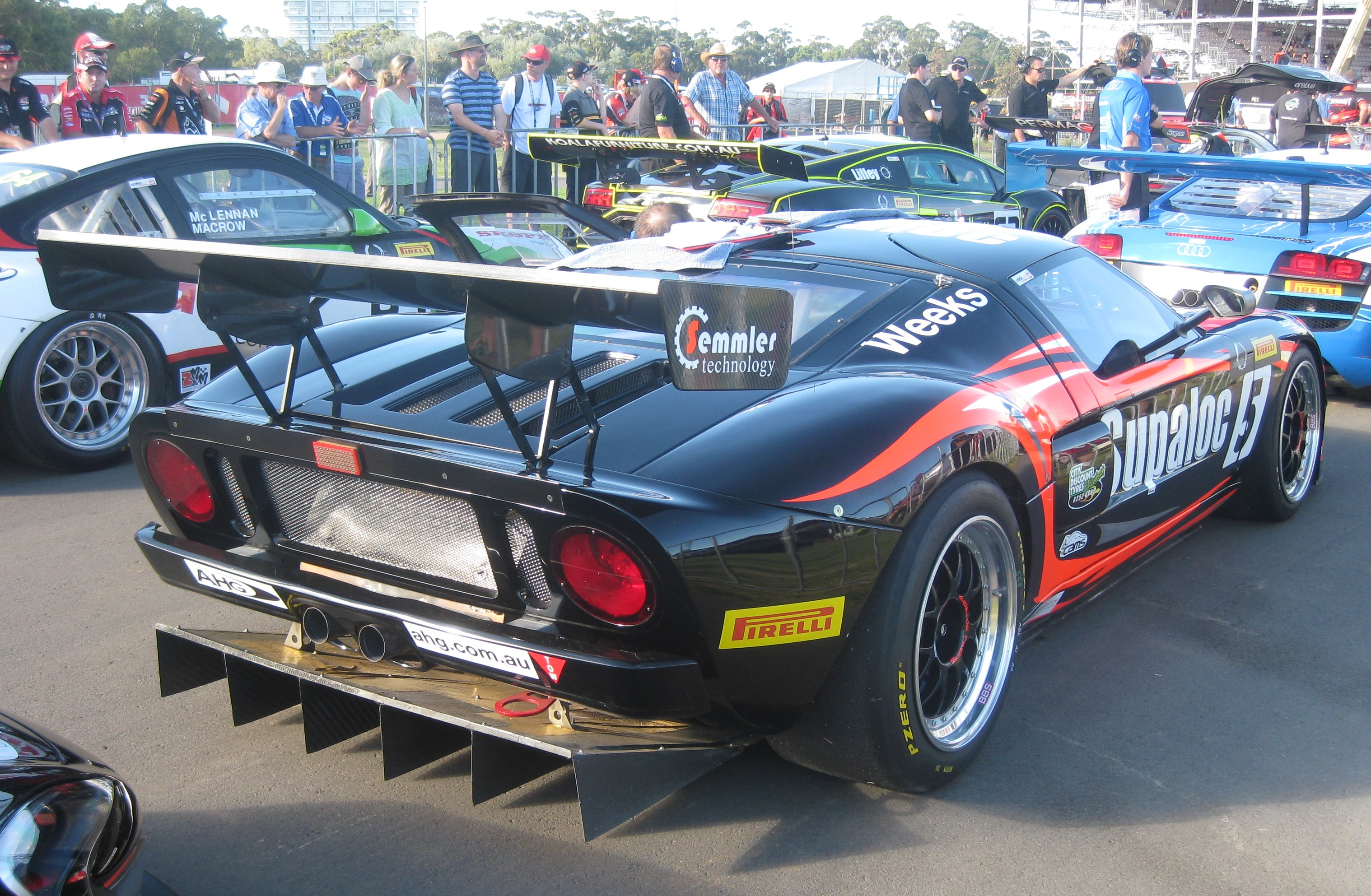 The Ford GT GT3 of Kevin Weeks at the opening round of the 2015 Australian GT Championship